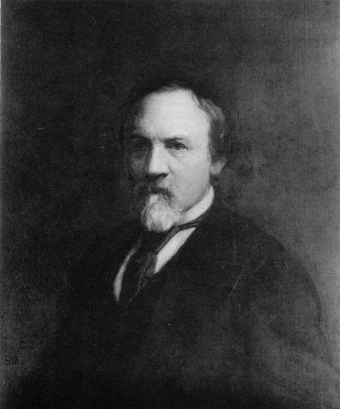 Paintings by Thomas Eakins